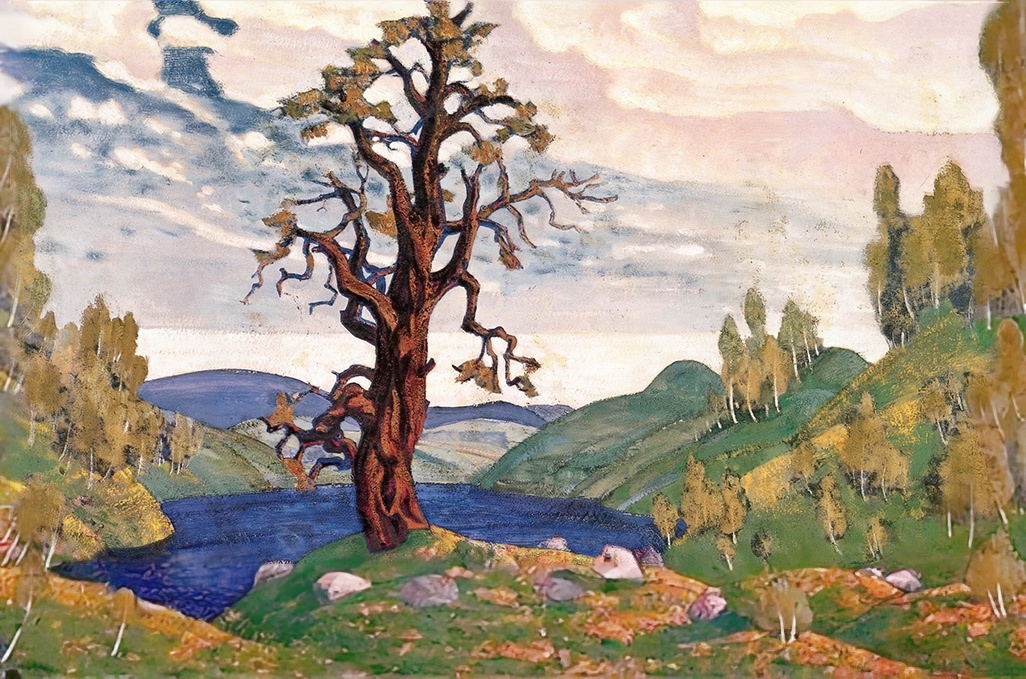 Kiss to the Earth. 2nd variant. Scenery sketch. 1912 (from a reproduction) For Diaghilev’s production, Théâtre des Champs-Élysées, Paris, 1913